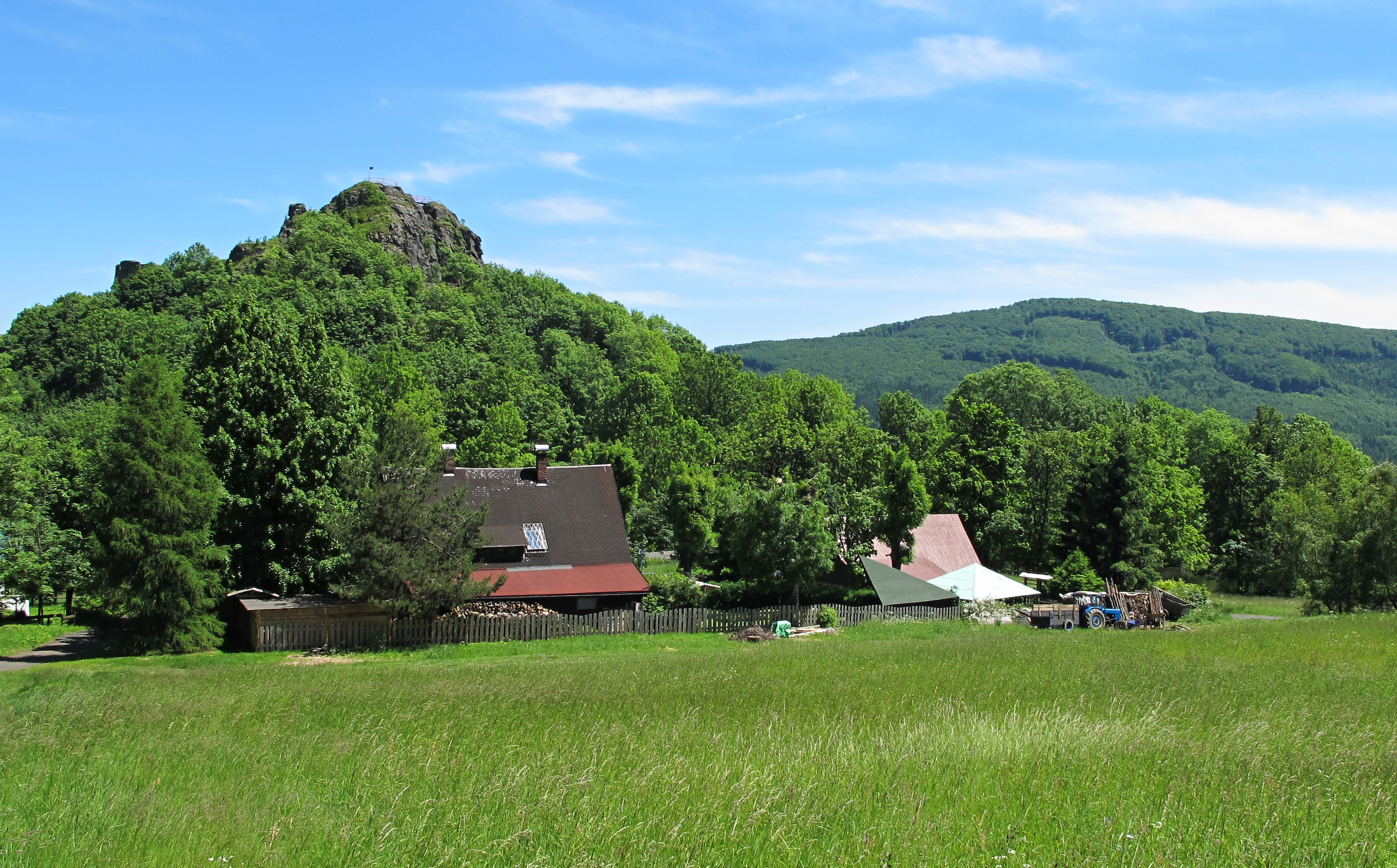 Ruins of the Tolštejn Castle, landscape park Lužické hory in Děčín District